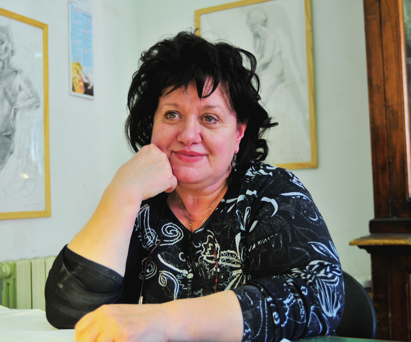 Uliana Pernazza